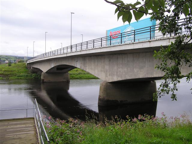 Border bridge between Lifford and Strabane Looking ESE